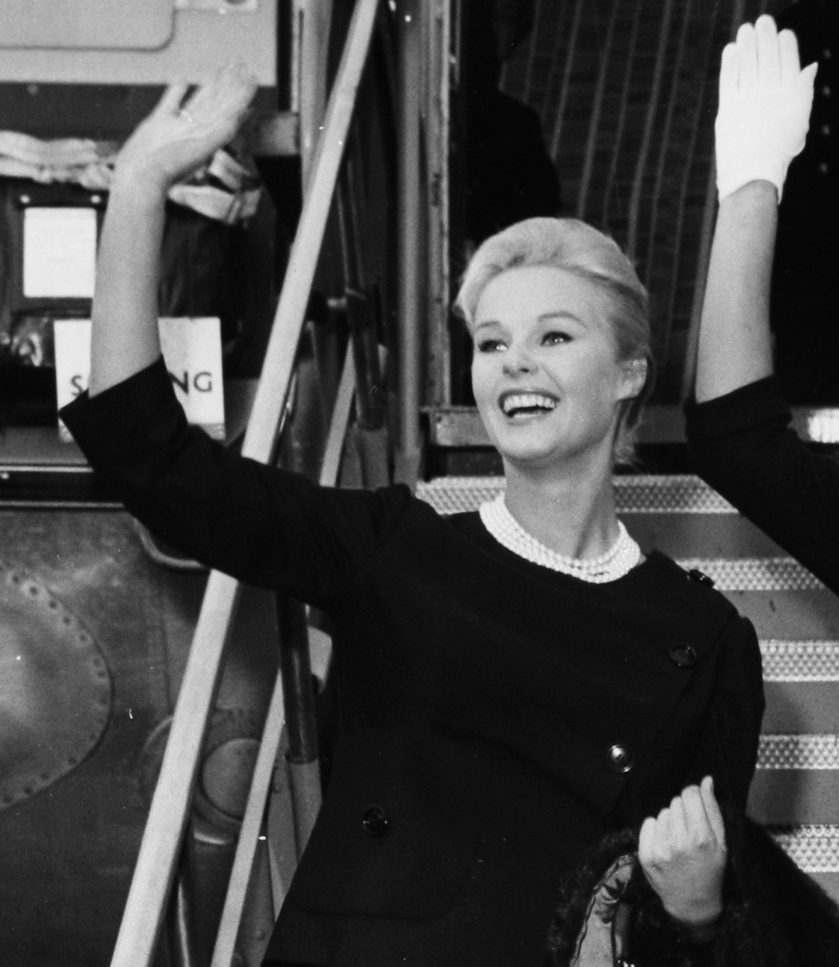 Miss Sweden Ingrid Goude and Miss Universe Carol Morris at Kastrup Airport CPH, Copenhagen 1958-05-14